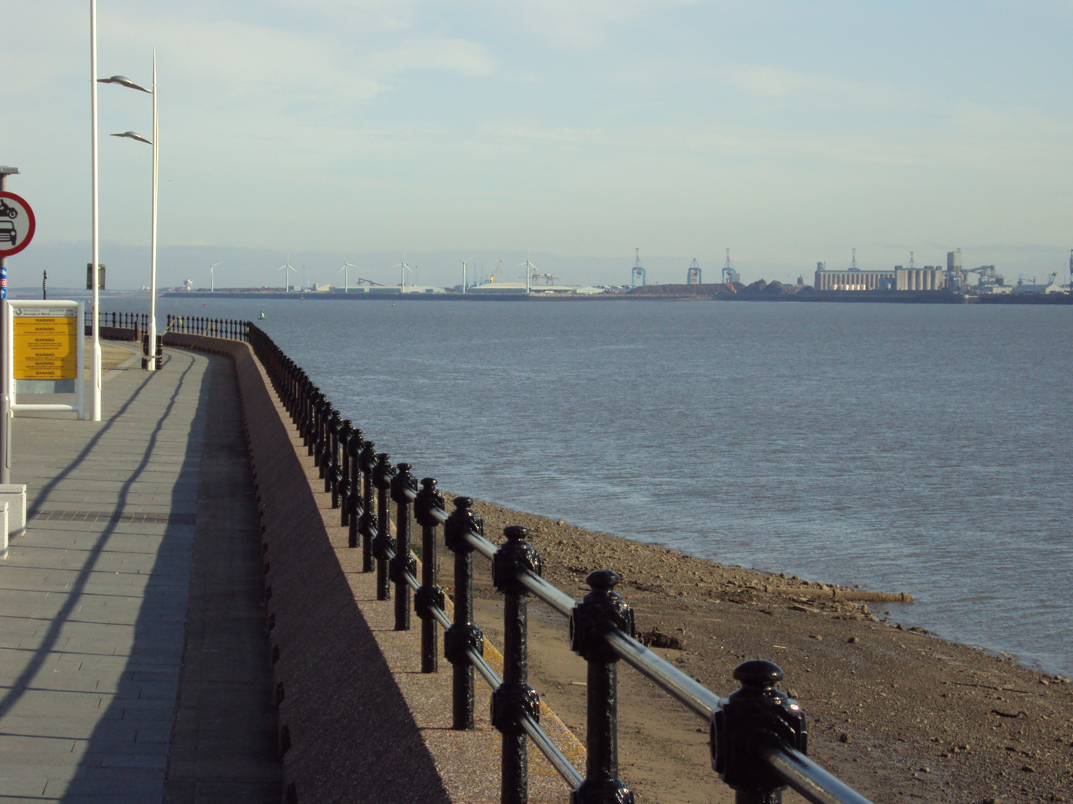 Looking across the River Mersey from the Promenade at Seacombe, Wirral, England. Six Vestas V44-600kW wind turbines and cranes can be seen at the Seaforth Dock on the Liverpool side.